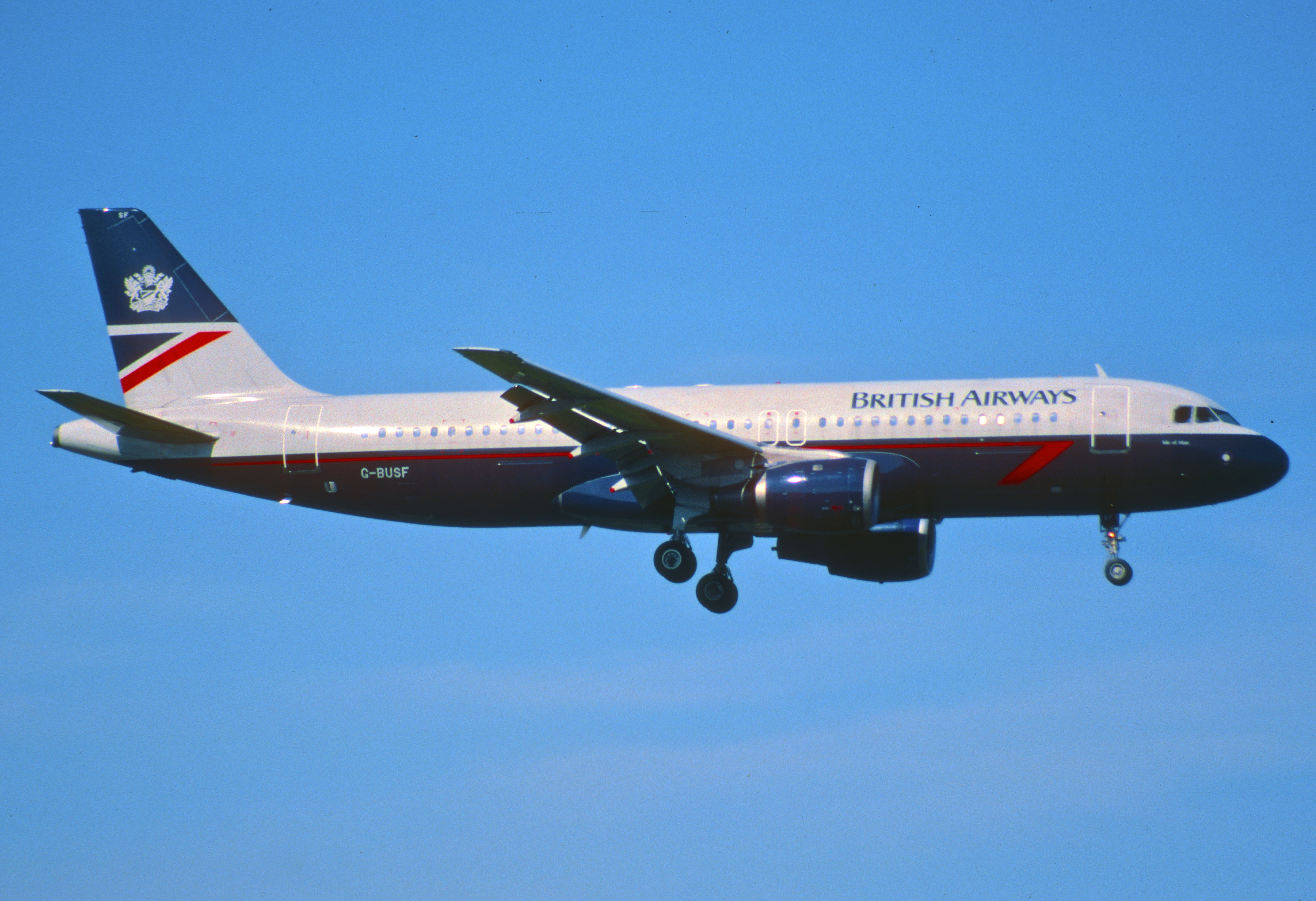 94ax - British Airways Airbus A320-111; G-BUSF@ZRH;16.05.2000